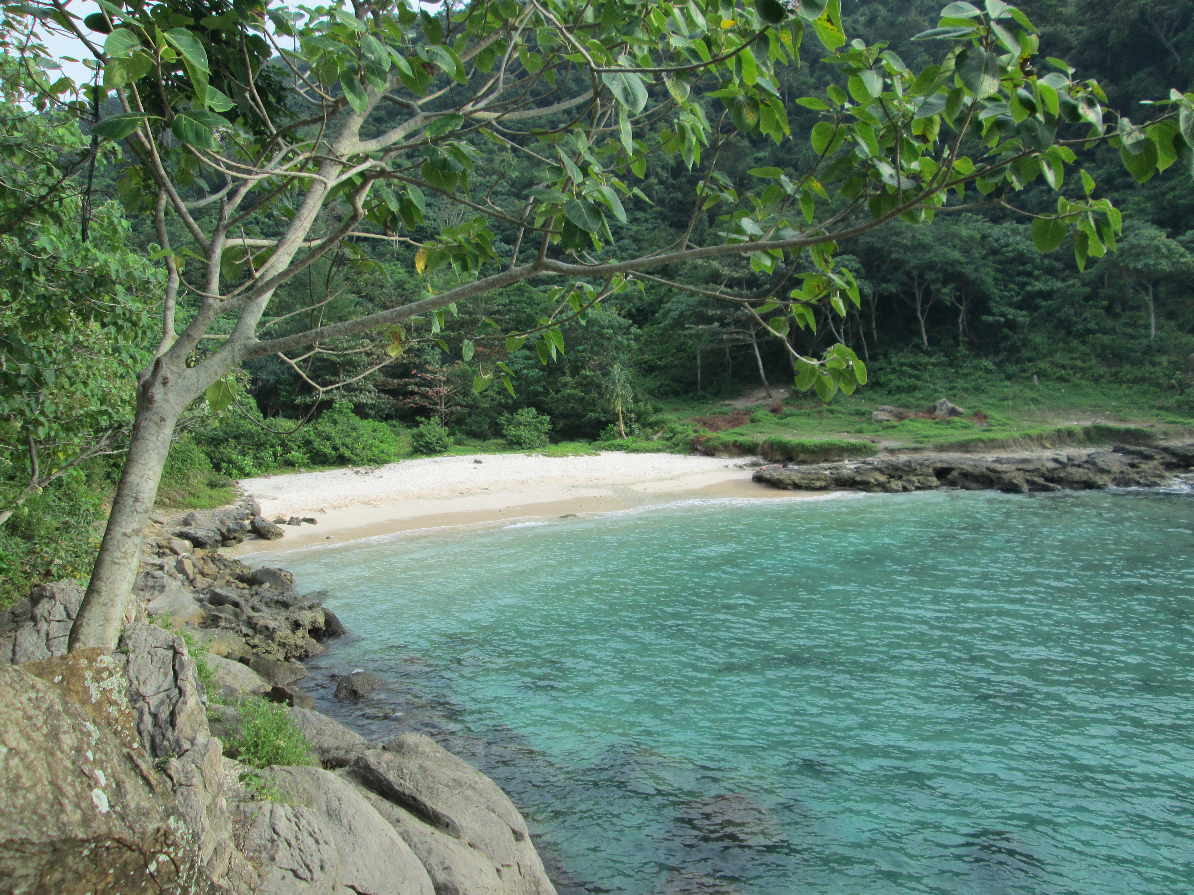 Lhôk Mata Ië beach in Ujông Pancu, Peukan Bada, Aceh Besar, Aceh